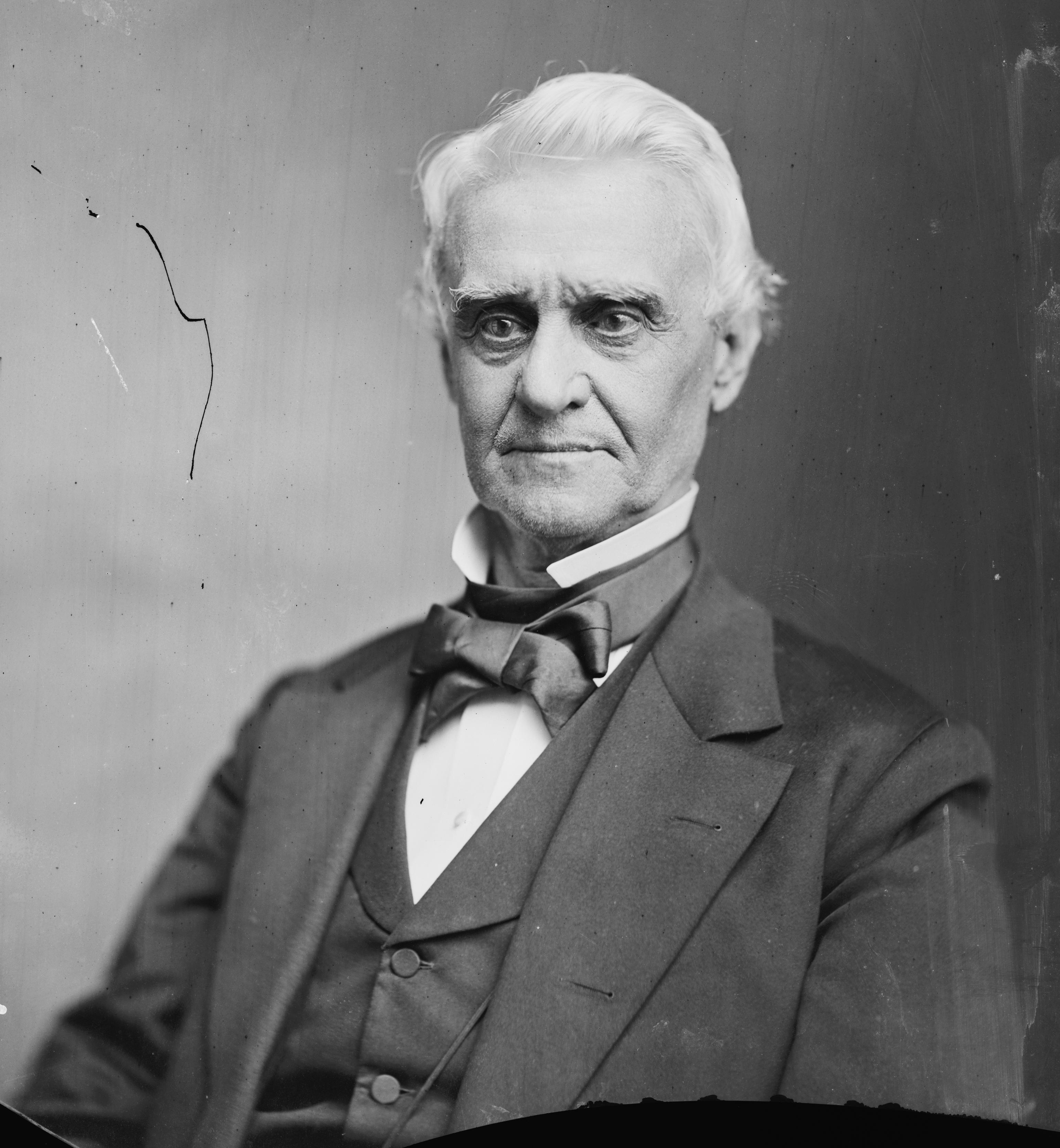 Richard W. Thompson. Library of Congress description: "Thompson, Hon. R.W. of Ind.".